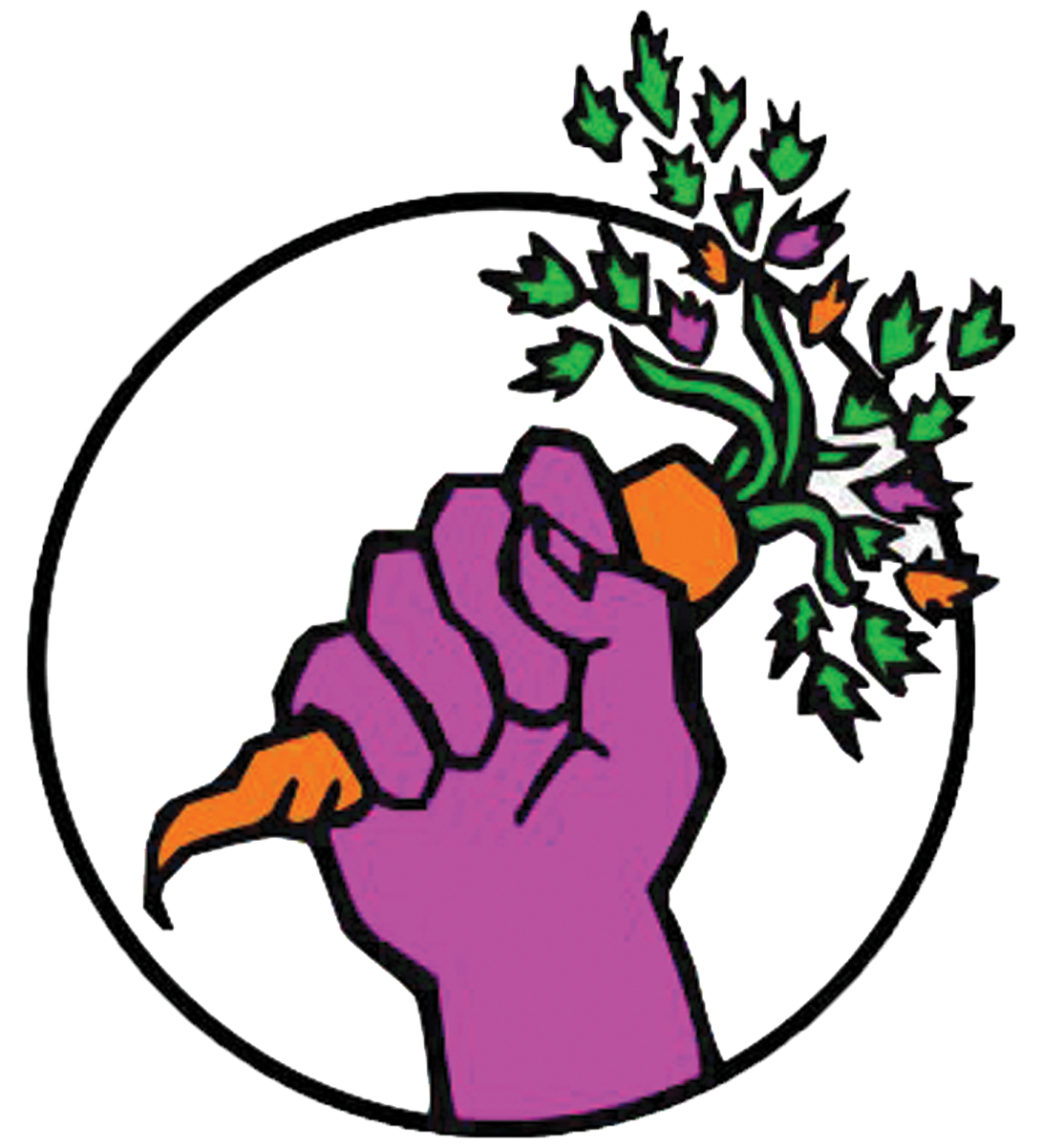 colored logo for Food Not Bombs